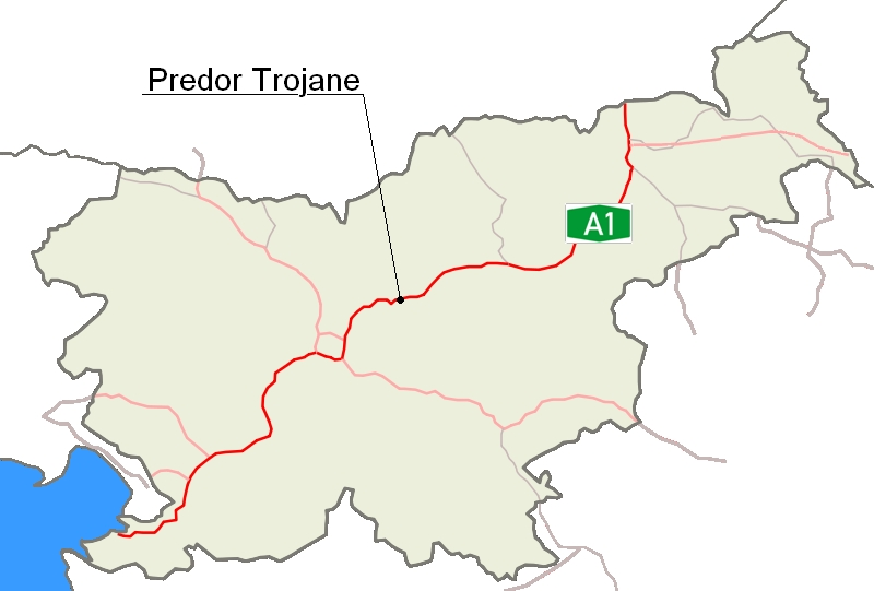 Location of the tunnel Trojane, Slovenia